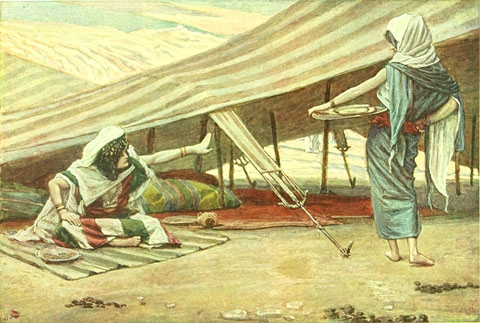 Sarai Sends Hagar Away; watercolor circa 1896–1902 by James Tissot